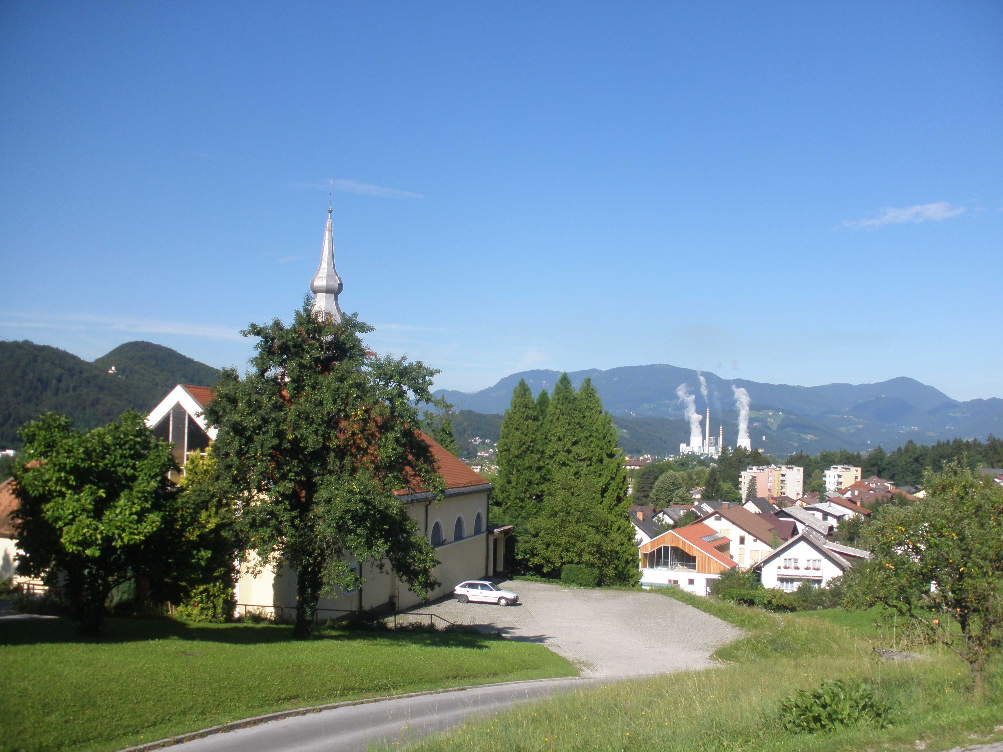 Church of St. Martin in Velenje and view to Šoštanj, Slovenia